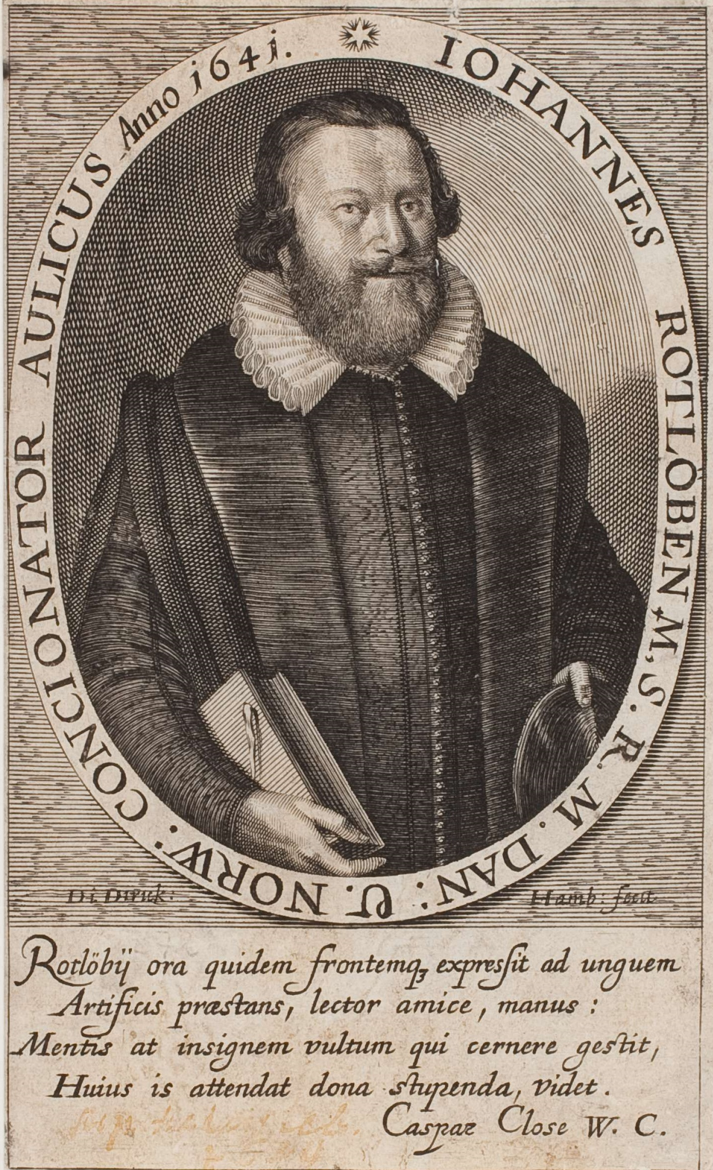 Portrait Johannes Rotlöben (1593-1649)